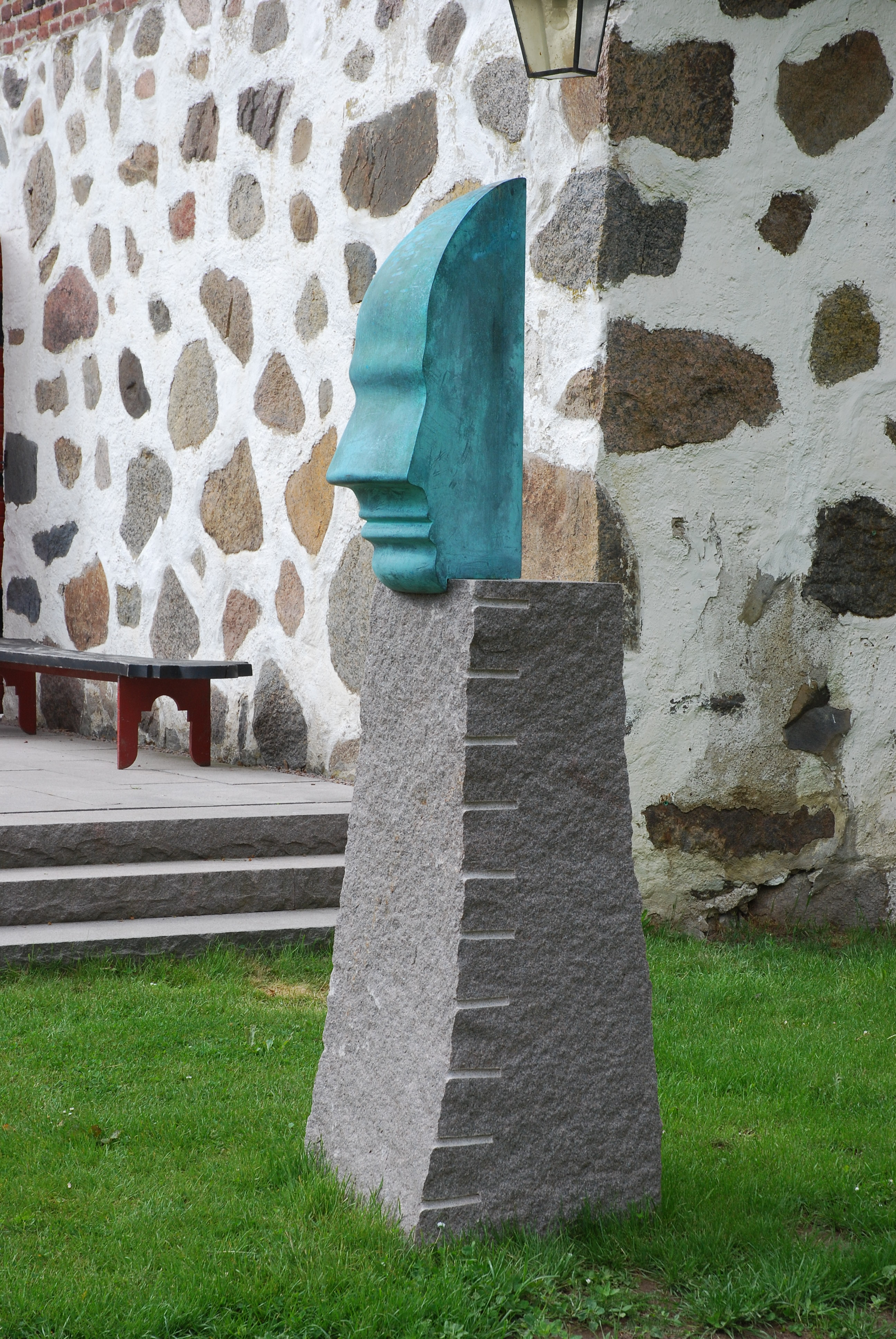 Sculpture by Sivert Lindblom, Wanås Castle, Sweden